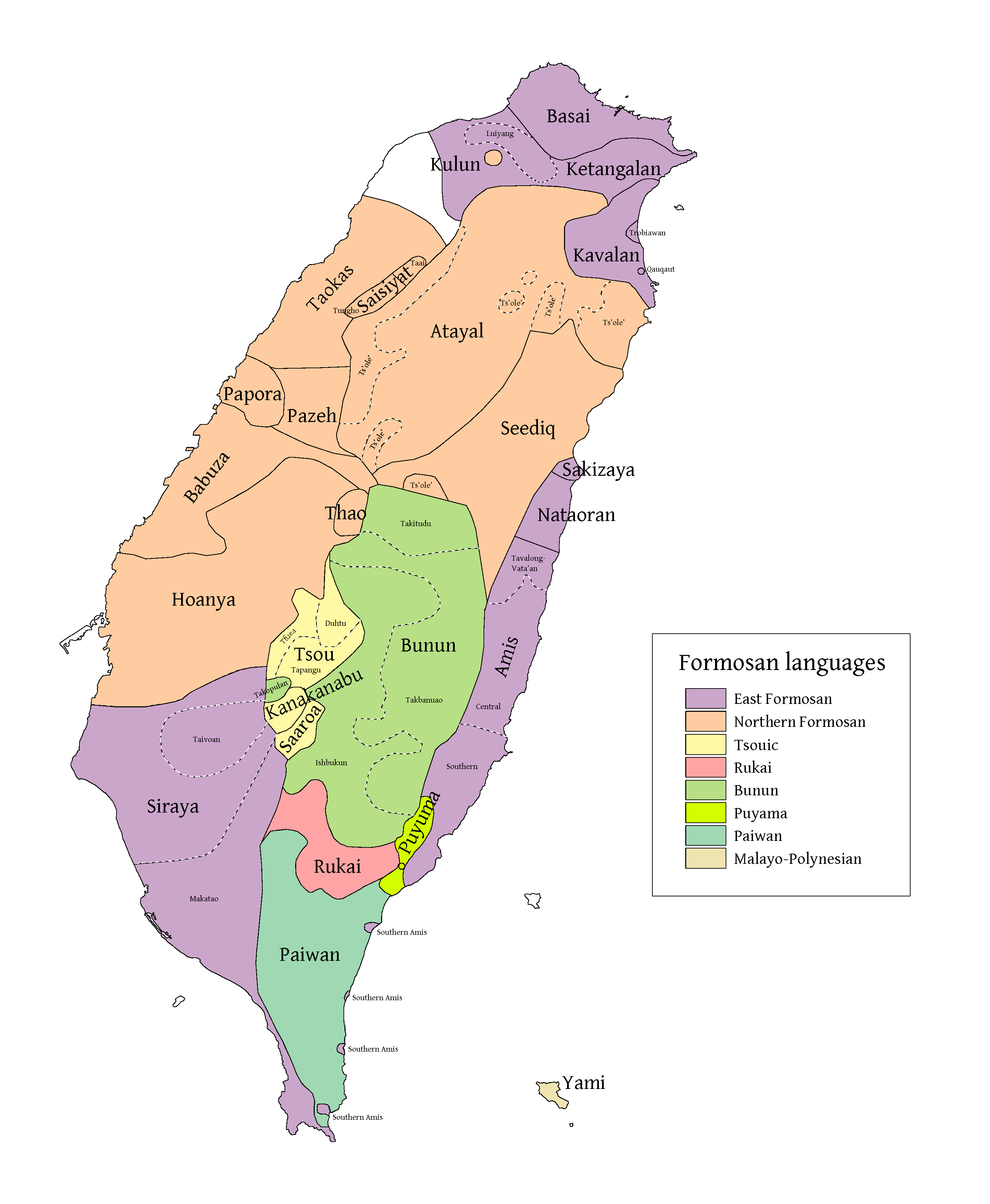 Distribution of Formosan languages before Chinese colonization. Classification from Li (2008) "Time perspective of Formosan aborigines", distribution from Tsuchida 1983, naming from Ethnologue